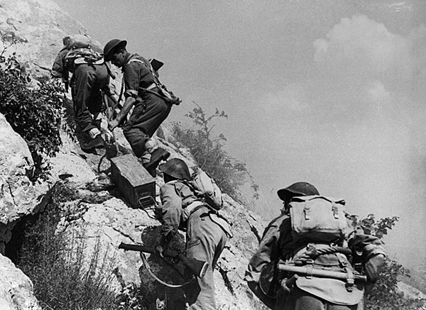 Polish soldiers carry ammunition to the front lines during the battle of Monte Cassino